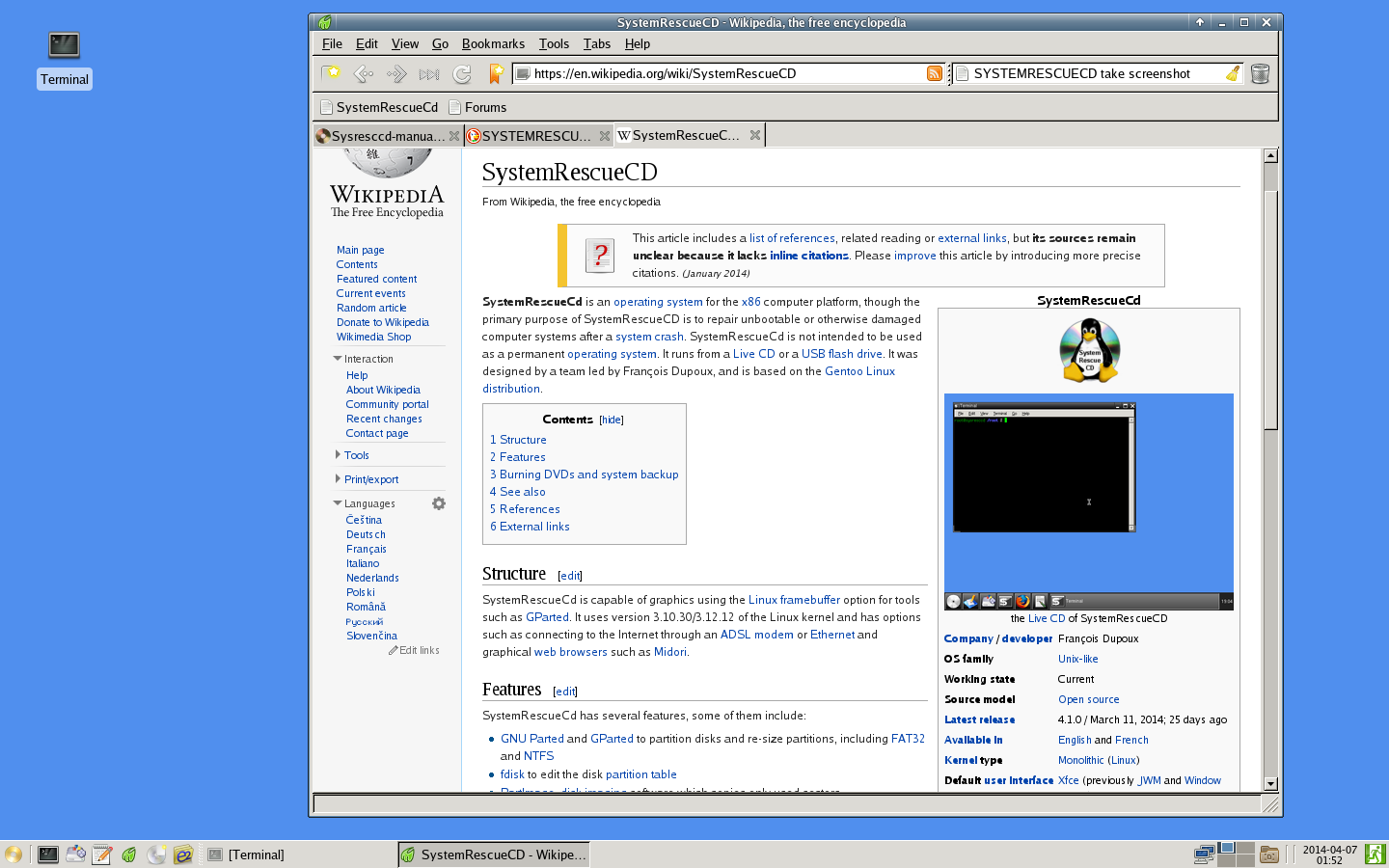 Screenshot of SystemREscueCD version 4.1.0, showing the default graphical interface, xfce, along with the default web browser, Midori.